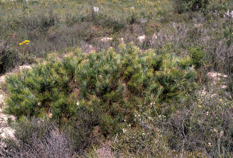 Banksia lanata south of Eneabba, Western Australia